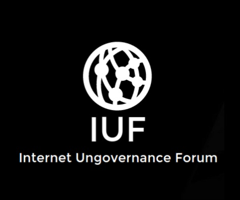 Logo Internet Ungovernance Forum